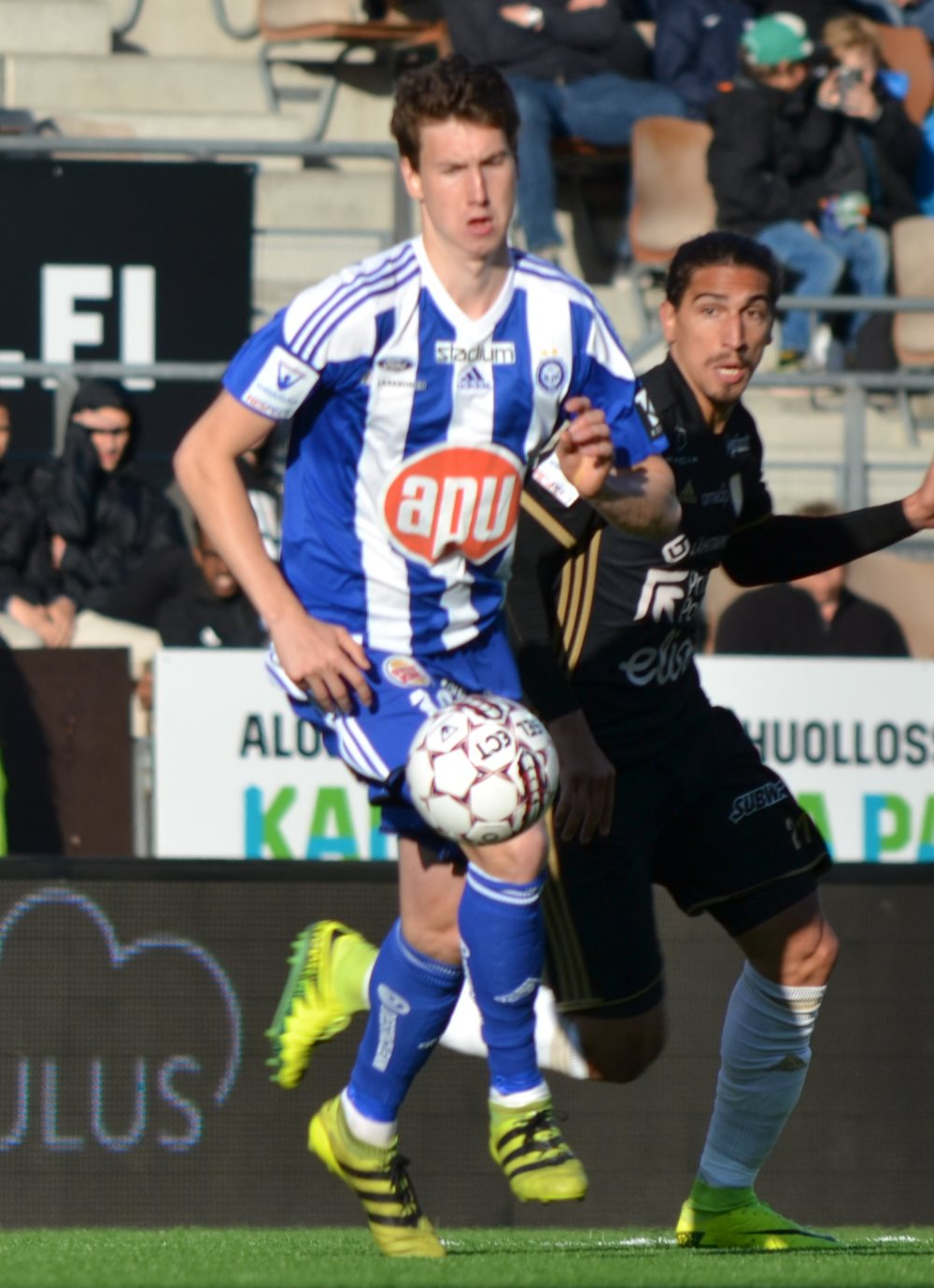 Football player Aapo Halme